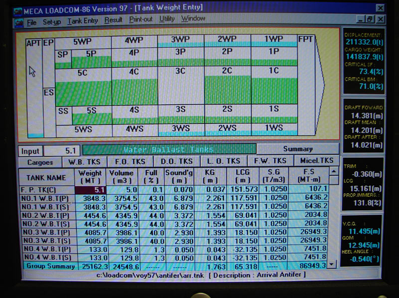 SAAB radars measure tank levels on the VLCC Algarve. The information is sent to a control and monitoring console which continually calculates drafts and hull stresses.